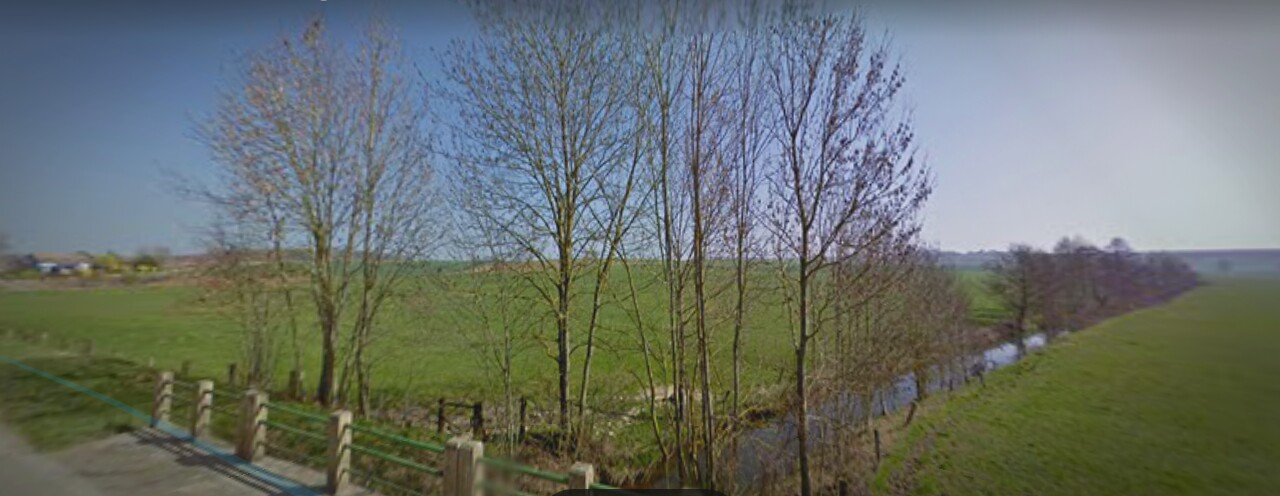 A view of the Bièvre Creek (an affluent of the Bar River) from the D12 Rd. (within the boundaries of that commune called La Guinguette St.) crossing him NW of Brieulles-sur-Bar, the Ardennes dept., Grand Est, France.